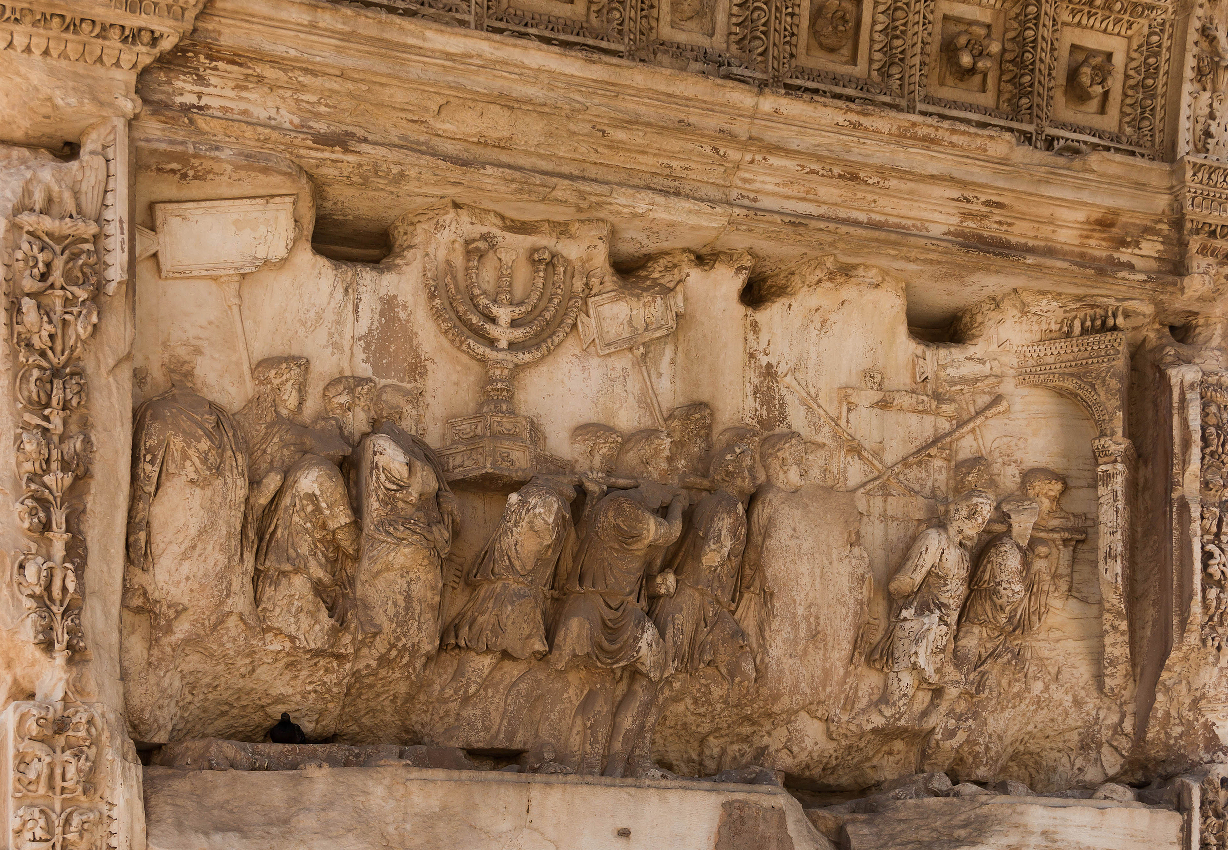 The treasure of Jerusalem, Relief under the Arch of Titus, Rome, Italy.